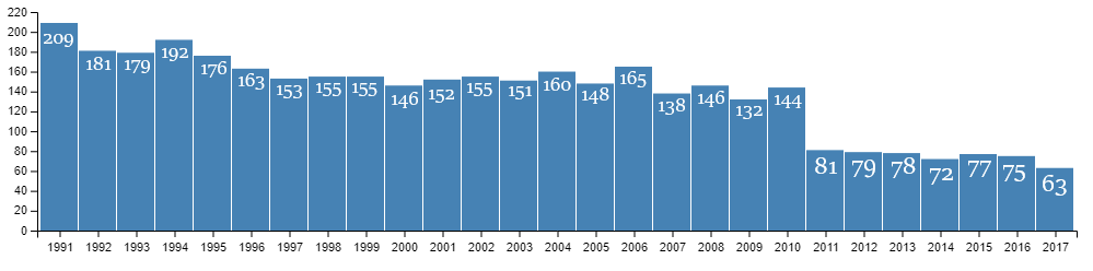 Population of Greenlandic settlement Eqalugaarsuit in 1991-2017